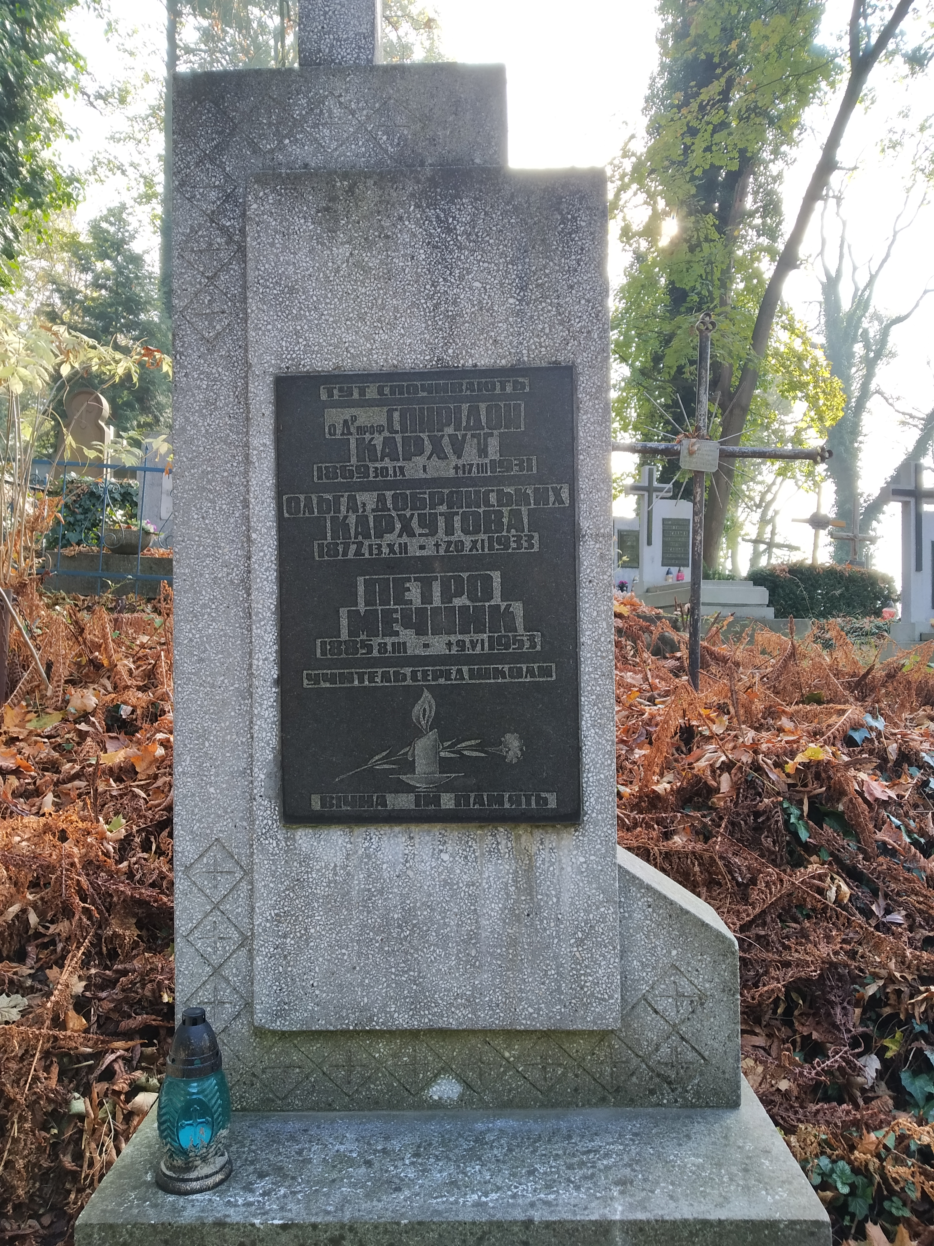 О. Спиридон Кархут - священик, мовознавець, доктор філософії.